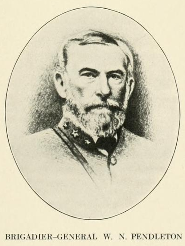 Confederate Brigadier General William N. Pendleton, Chief of Artillery of the Army of Northern Virginia